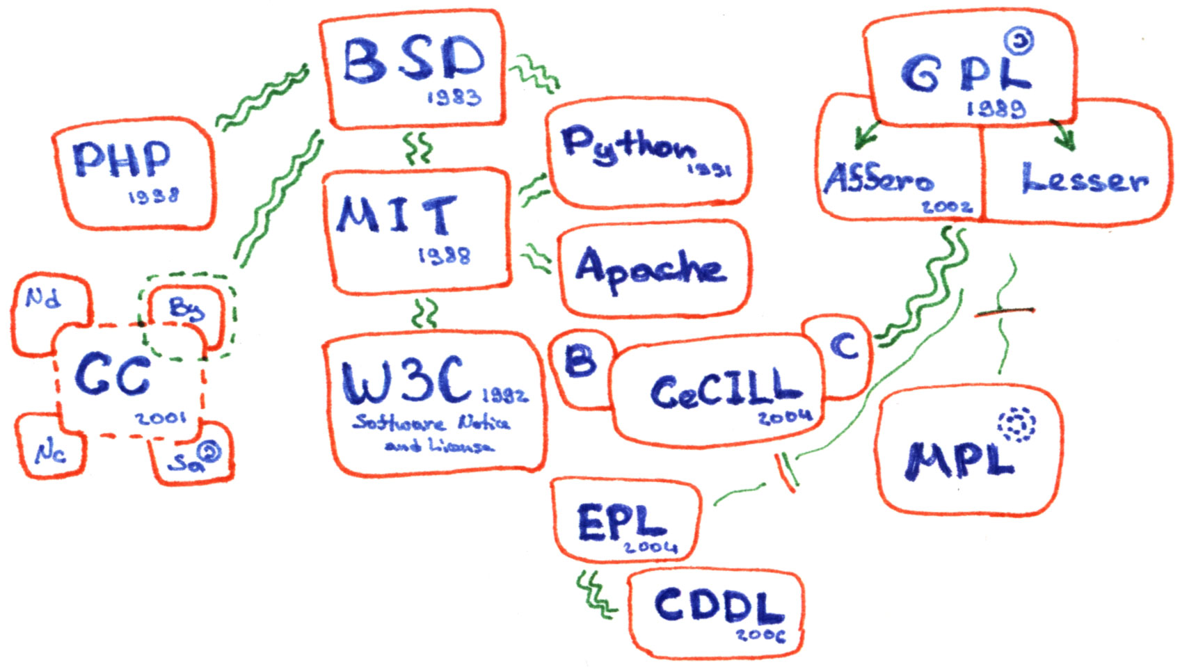 License dependency network.